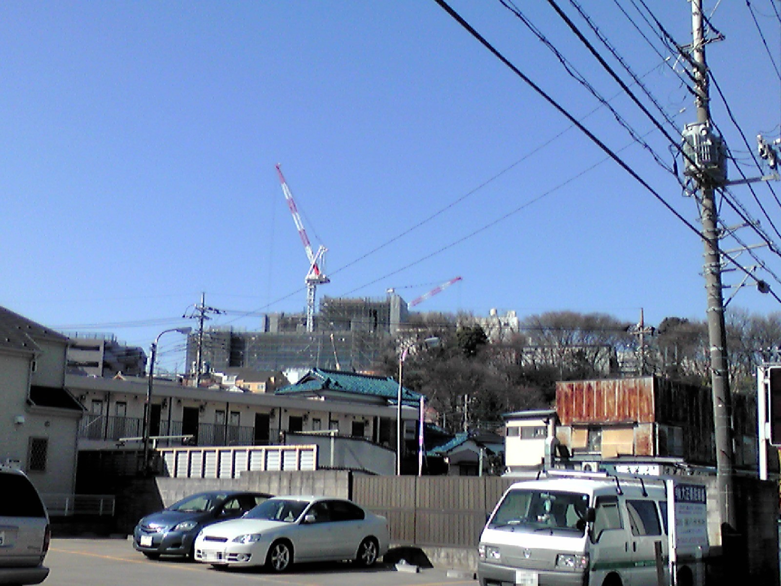 Kawasaki Japan.